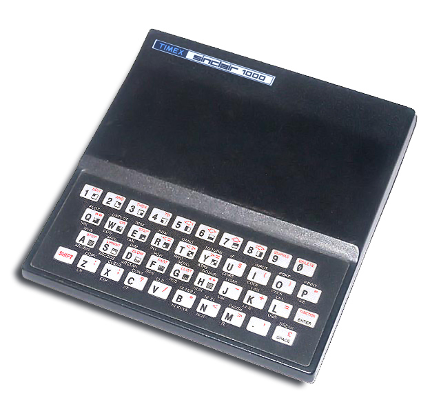 The Timex computer was a Sinclair ZX81 variant with 2 KiB of static RAM onboard.